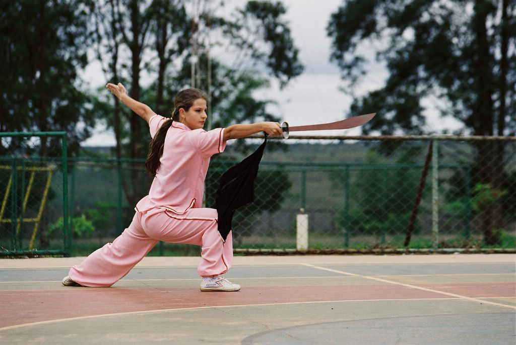 A dao, as seen in contemporary wushu.